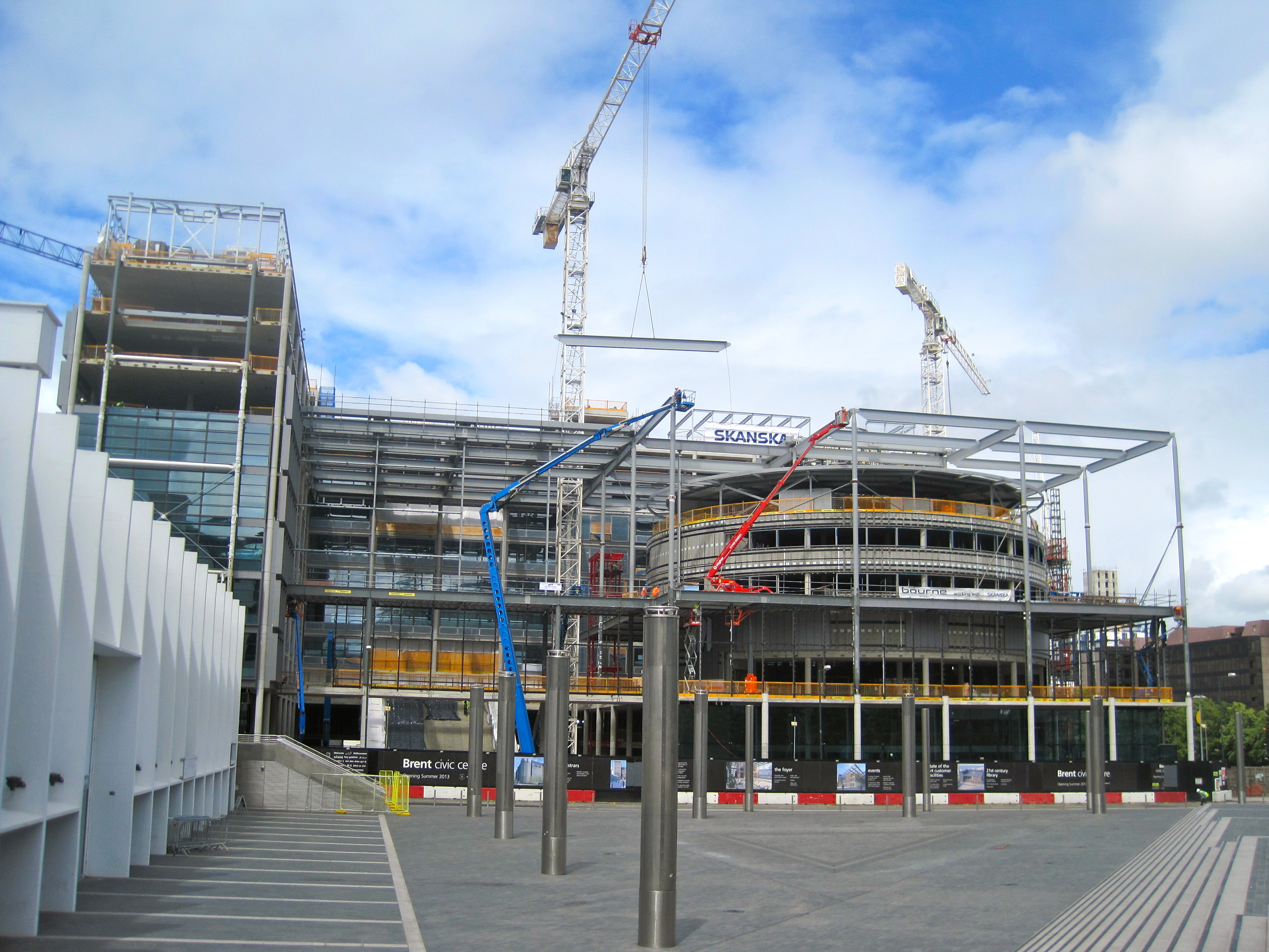 Wembley regeneration Jul 2012: Brent council civic centre